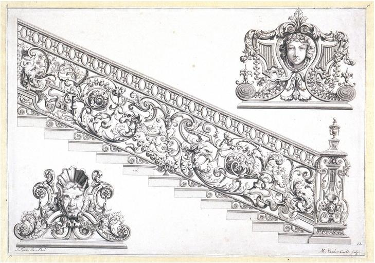 Print, 1693, Jean Tijou V&A Museum no. 25082:9 Techniques - Engraving, ink on paper Artist/designer Jean Tijou, (designer), Michael Vandergucht, (1660 - died 16/10/1725) (engraver) Place - London, England Dimensions - Height 25.6 cm (excluding mount), Width 37.3 cm (excluding mount) Object Type - This print is an engraving, an image made by cutting lines into the surface of a flat piece of metal, inking the plate and then transferring the ink held in the lines onto a sheet of paper. Subject Depicted - Across the centre of this print is a design for a staircase. The two free-floating elements above and below it are details from the Hampton Court Screen, the most important work in England by the French ironworker Jean Tijou (active in England 1688-1712). The Hampton Court Screen is a magnificent set of 12 highly-ornate, wrought iron panels incorporating symbols of the British Isles and connected by railings; this enclosed the end of the Fountain Garden at Hampton Court Palace. Tijou began it in 1689, it took him three years to make, and he was paid £2,160 for it. A small part of the Hampton Court Screen almost identical to the detail in the bottom right corner of this print can be seen in the V&A's Ironwork Gallery, Room 114a. Design & Designing - In 1693, Jean Tijou published a set of 20 prints of his designs for ironwork, which included this one. In the title he explained that the prints depict gates, balconies, staircases, panels etc., mostly either made for William III and Mary II's royal palace at Hampton Court, or the great houses of the English nobility. Tijou states in the title that the prints were 'all for the Use of them that will work Iron in Perfection and with Art', i.e. other craftsmen. This was the first pattern book for ironwork to be published in Britain.